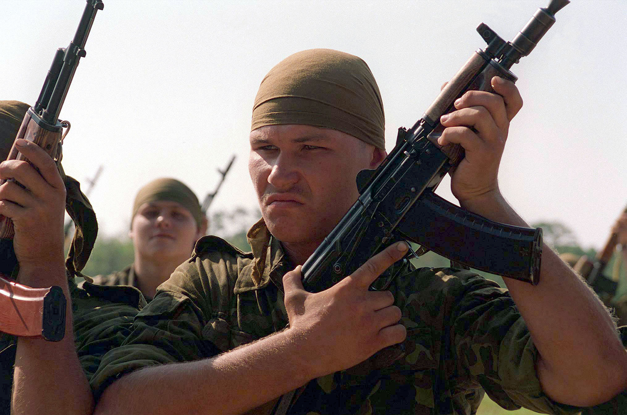 A Ukrainian Marine armed with an AKS-74U carbine in a line during civil disturbance operations, Situational Training Exercise 4, Exercise COOPERATIVE OSPREY 96. An AK-74 assault rifle can be seen on the left side of the image. Cooperative Osprey '96 is a United States Atlantic Command sponsored exercise, that will be conducted by Marine Forces Atlantic, in August 1996 at Camp Lejeune, North Carolina. Cooperative Osprey, under the Partnership for Peace program, will provide interoperability training in peacekeeping and humanitarian operations along NATO/IFOR standards, with an emphasis on individual and collective skills. The three NATO countries providing troops are the United States, Canada, and the Netherlands. The 16 "Partnership for Peace" nations contributing troops are Albania, Austria, Bulgaria, Estonia, Georgia, Hungary, Kazakhstan, Kyrgystan, Latvia, Lithuania, Moldova, Poland, Romania, Slovak Republic, Ukraine, and Uzbekistan. In addition, the following countries are providing observers to the exercise: Azerbaijan, Belarus, Czech Republic, and Denmark.Location: Marine Corps Base Camp Lejeune, North Carolina (NC) United States of America (USA)